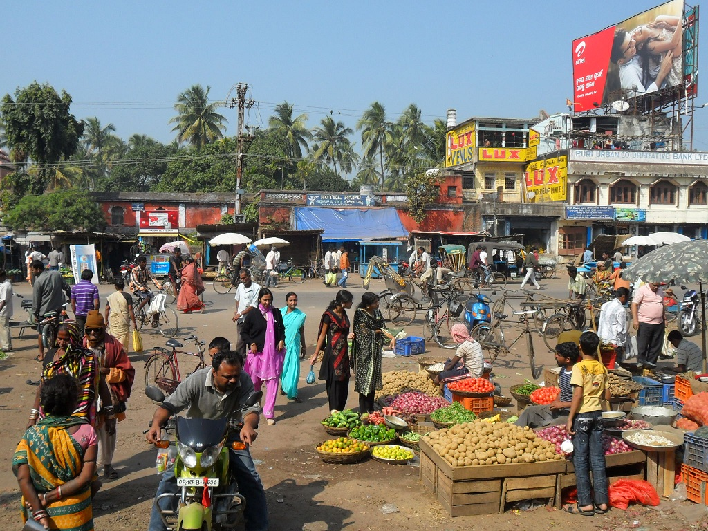 A street market in India